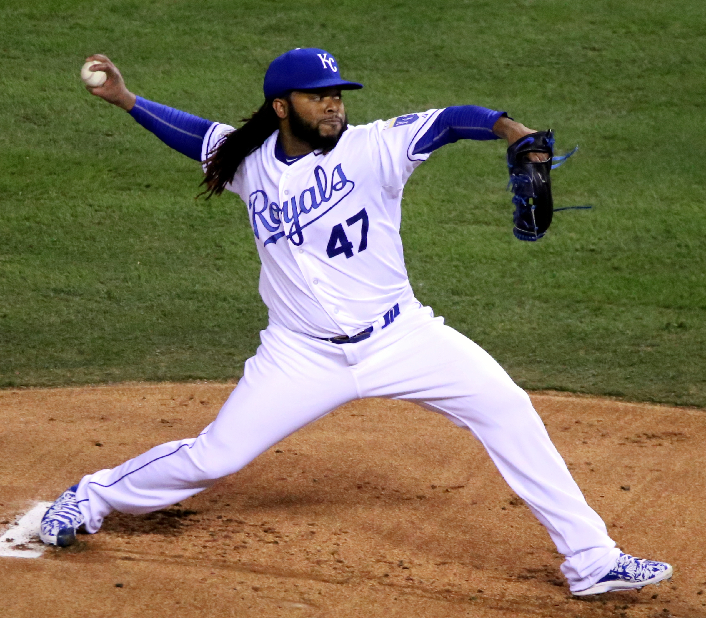 Johnny Cueto